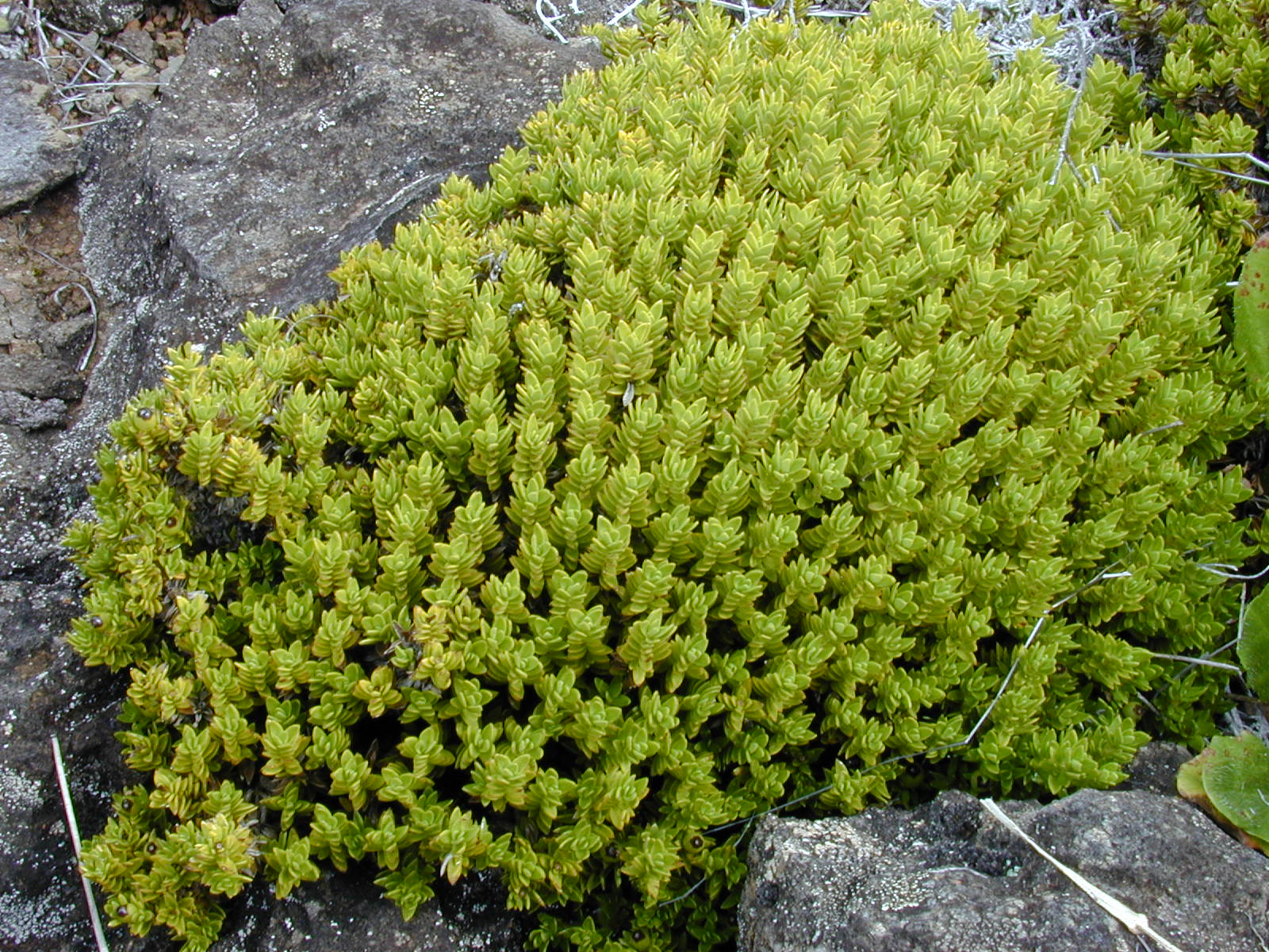 Coprosma ernodeoides (habit). Location: Maui, top old switchbacks